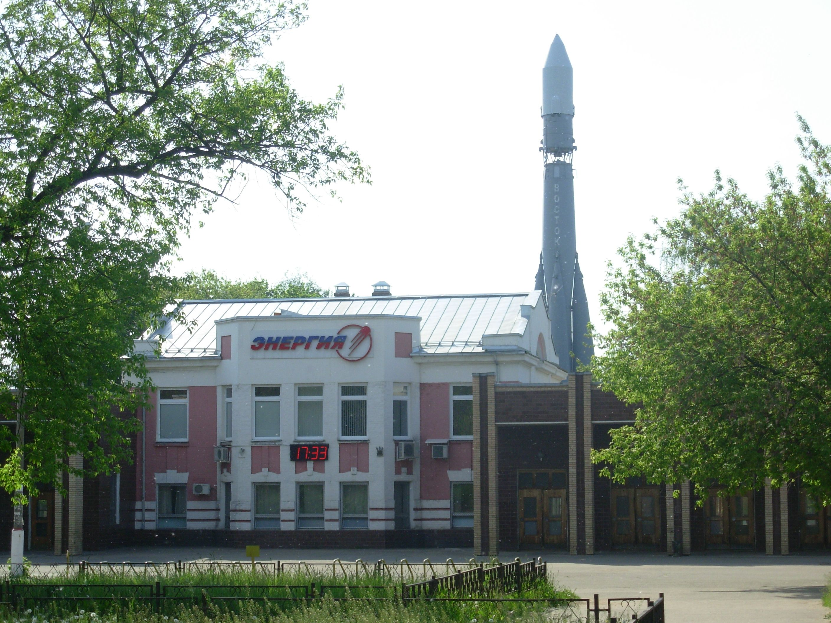 rkk